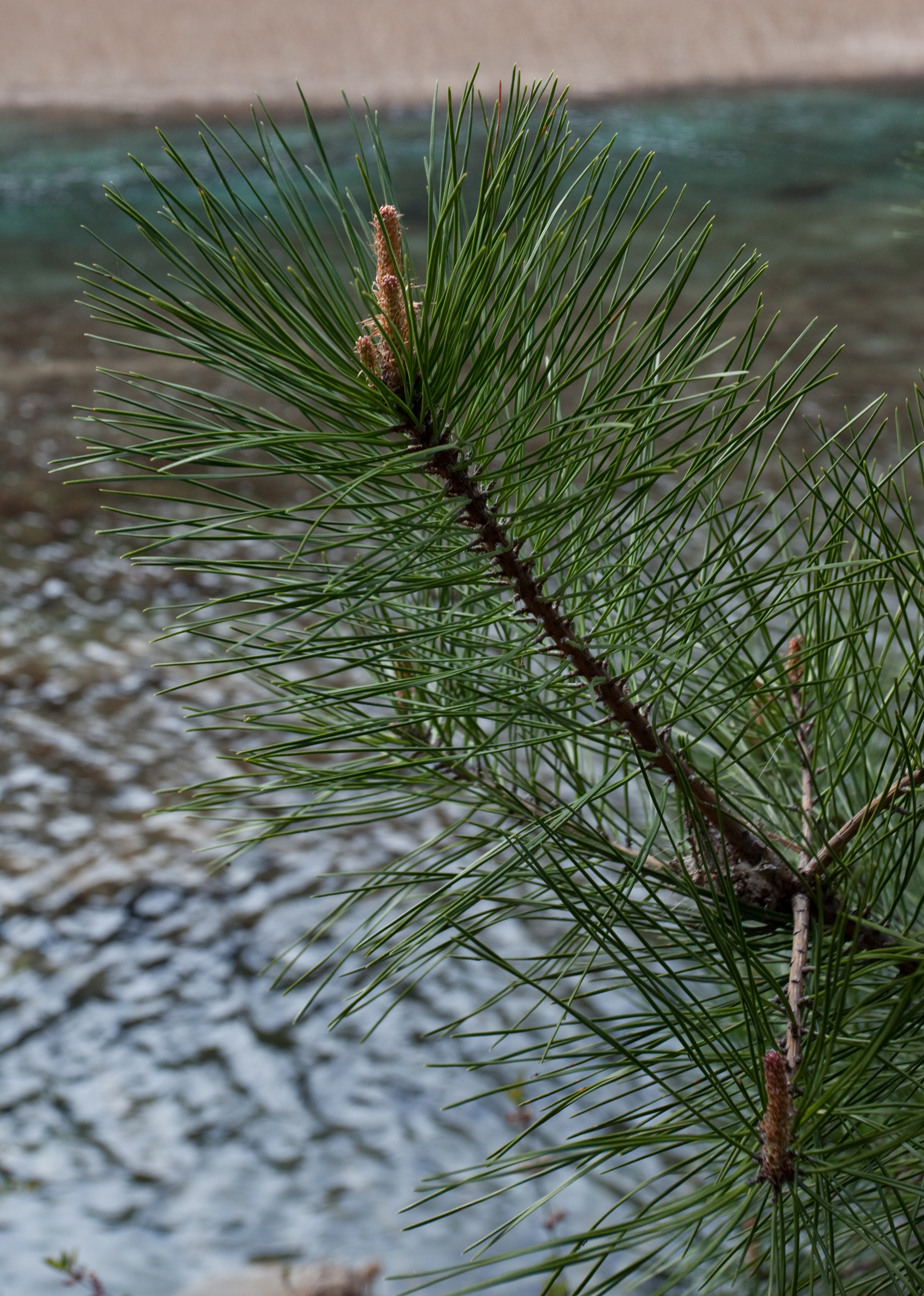 Pinus densata foliage, Jiuzhaigou Valley, Sichuan, China.